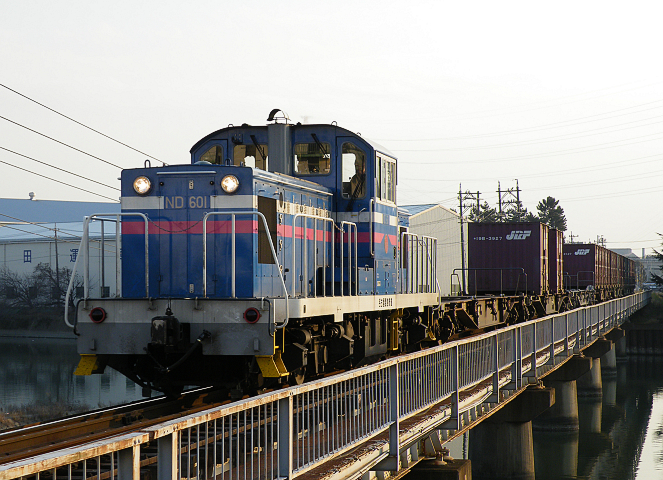 64t diesel locomotive type ND60(No.ND601) of Nagoya Rinkai Railway, Nagoya city, Japan.